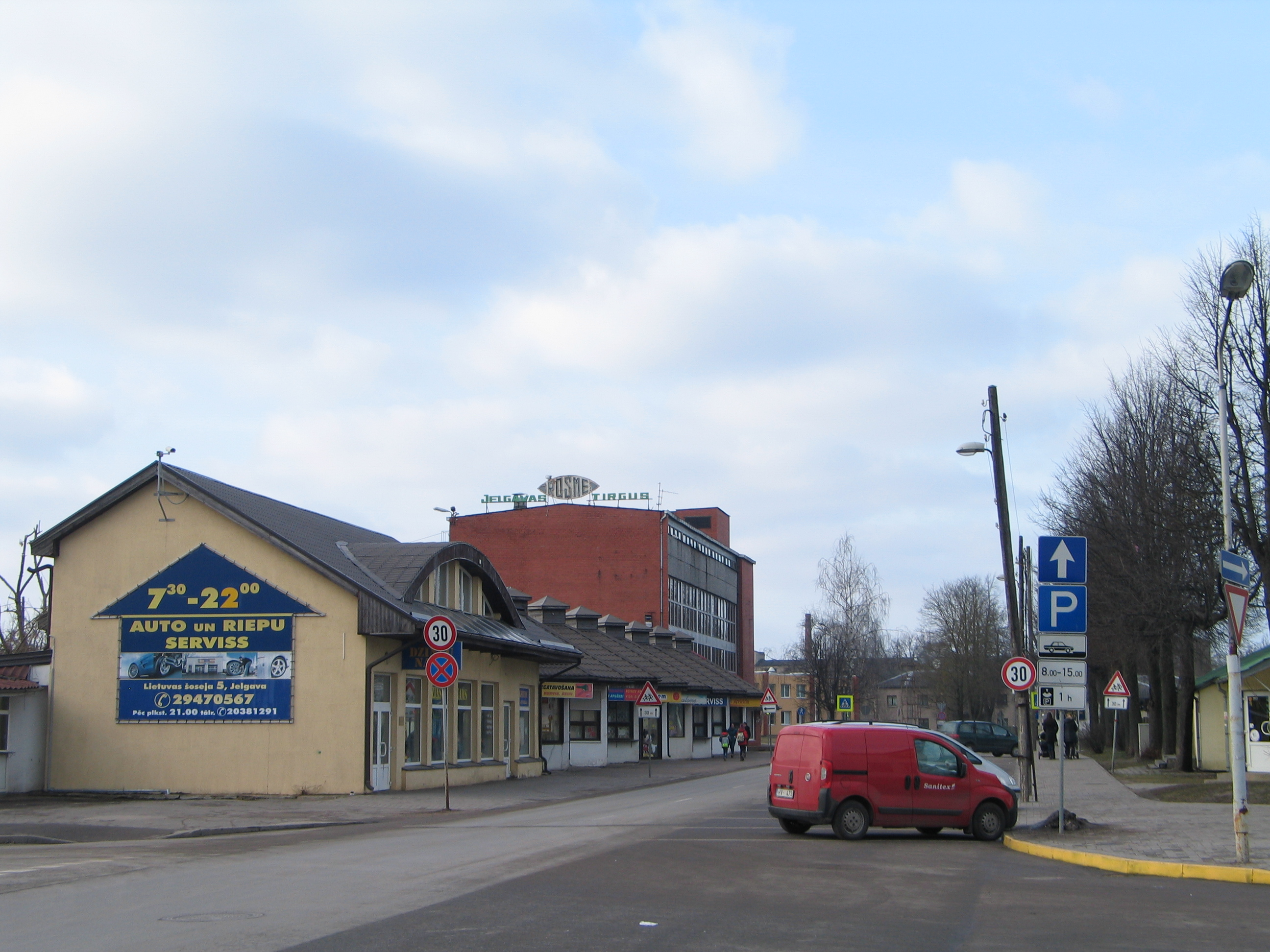 Uzvaras Street in Jelgava